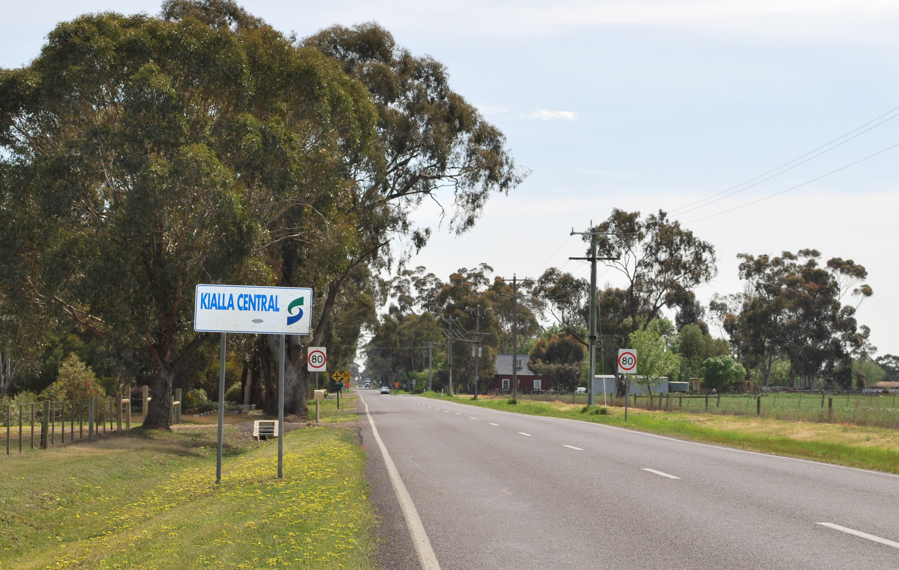 Town entry sign at Kialla, Victoria